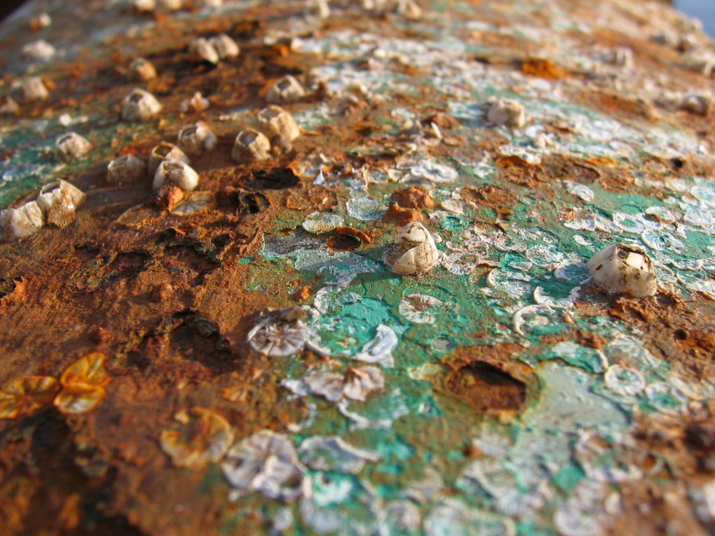 Corrosion, atmosferic and biologic; Biologic made by Barnacle